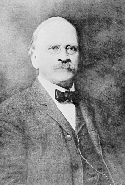 Edward Williams Morley in 1887, an American scientist (chemist and physicist)